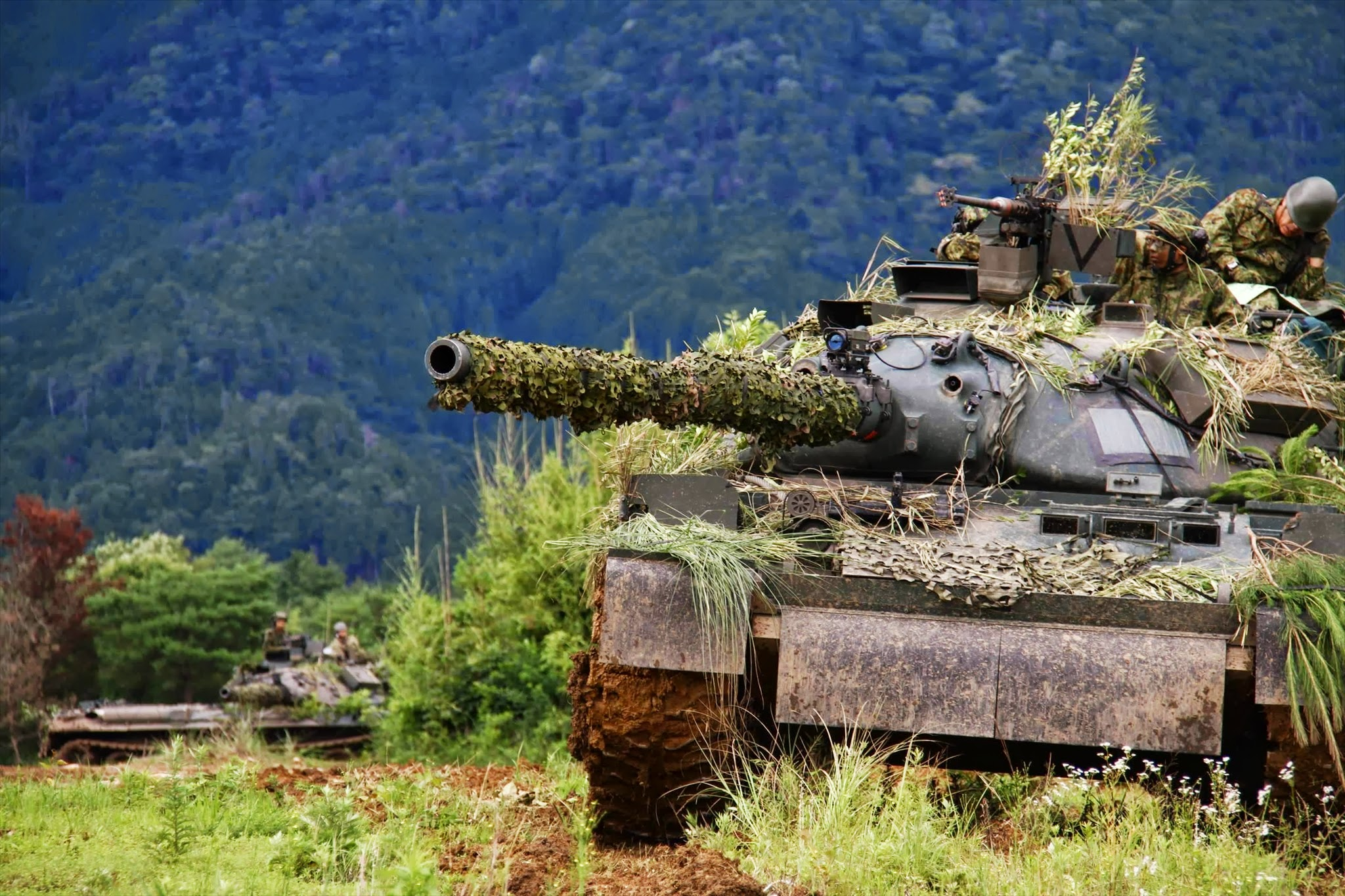 Title IMG_0440.JPG Album 教育訓練等 第１３旅団第１次訓練検閲（第１３戦車中隊・日本原）